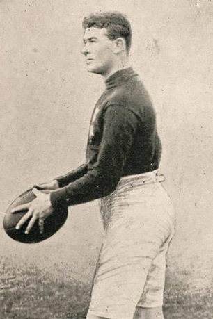 Photograph of Doug Gillespie from the 1910 Weekly Times Victorian Footballer Postcard Series